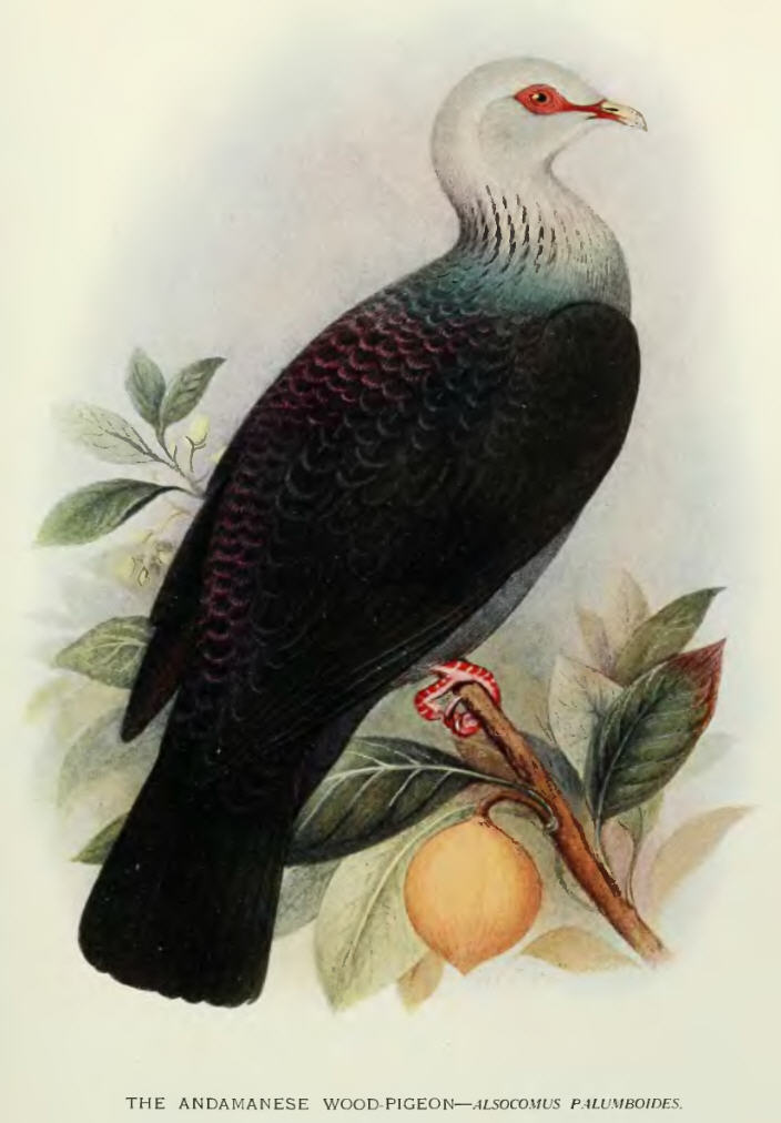 Columba palumboides